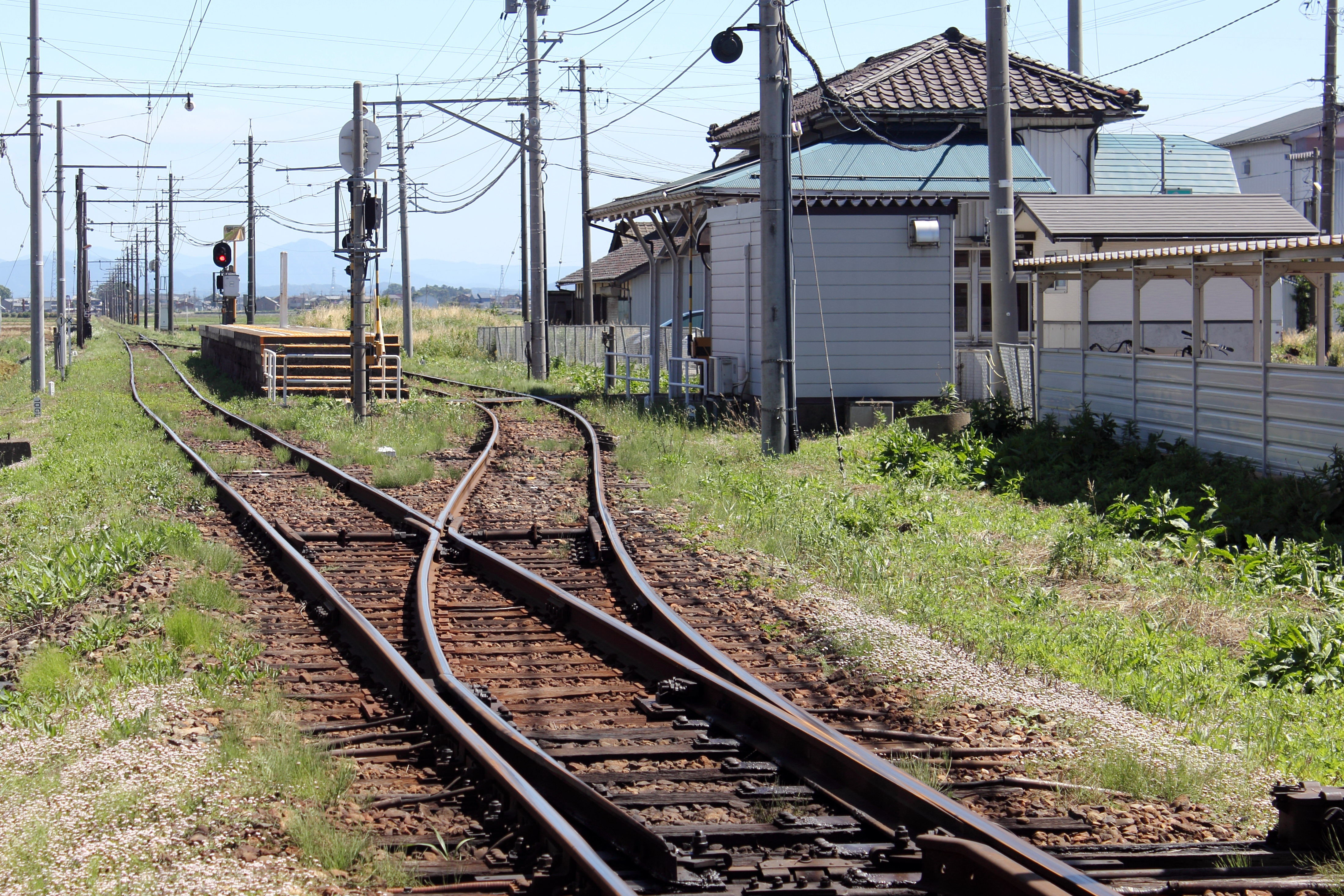 Honjyo Station in Fukui Prefecture, Japan home